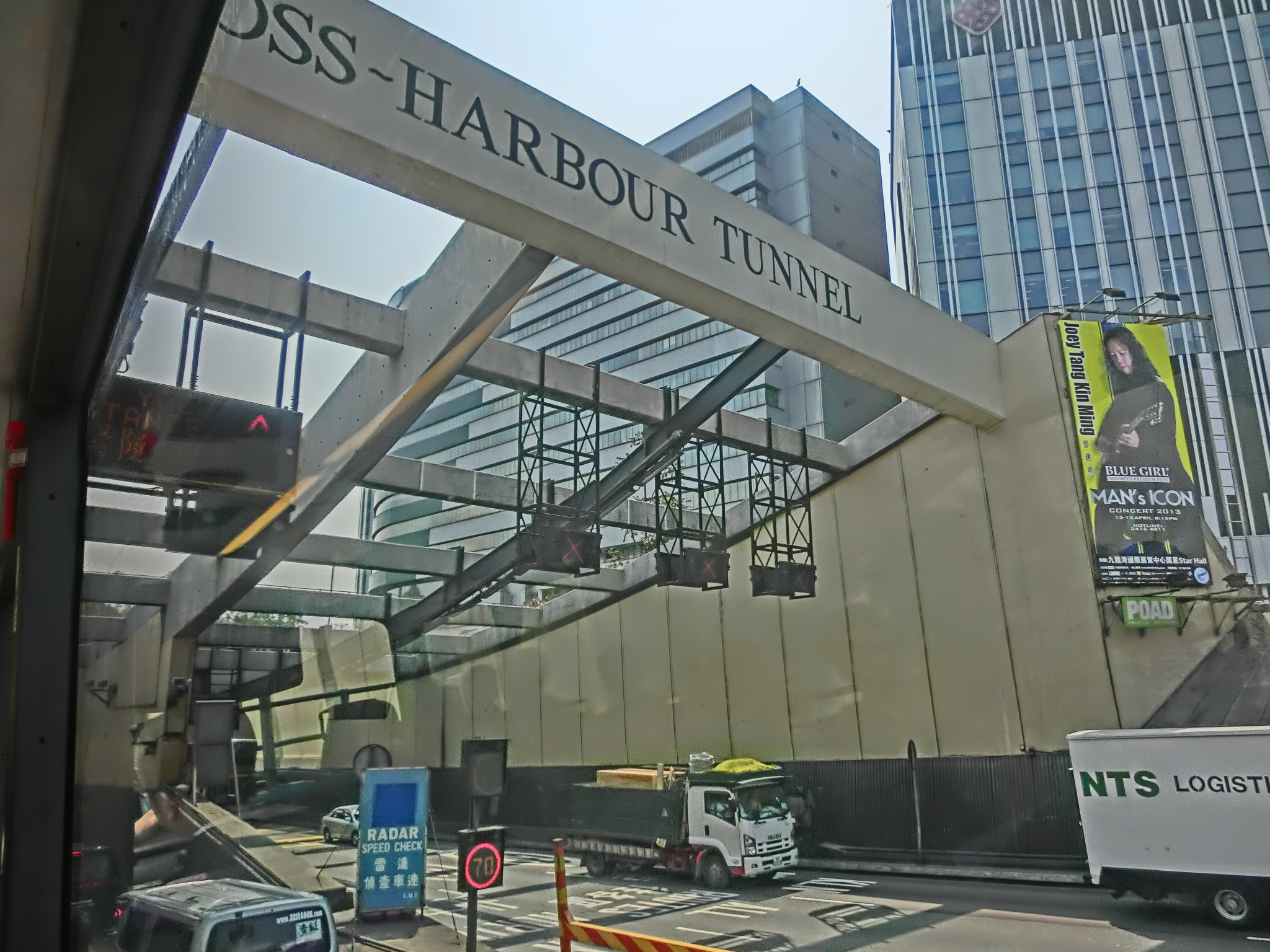 紅磡 康莊道, Hong Chong Road, Hung Hom, Hong Kong